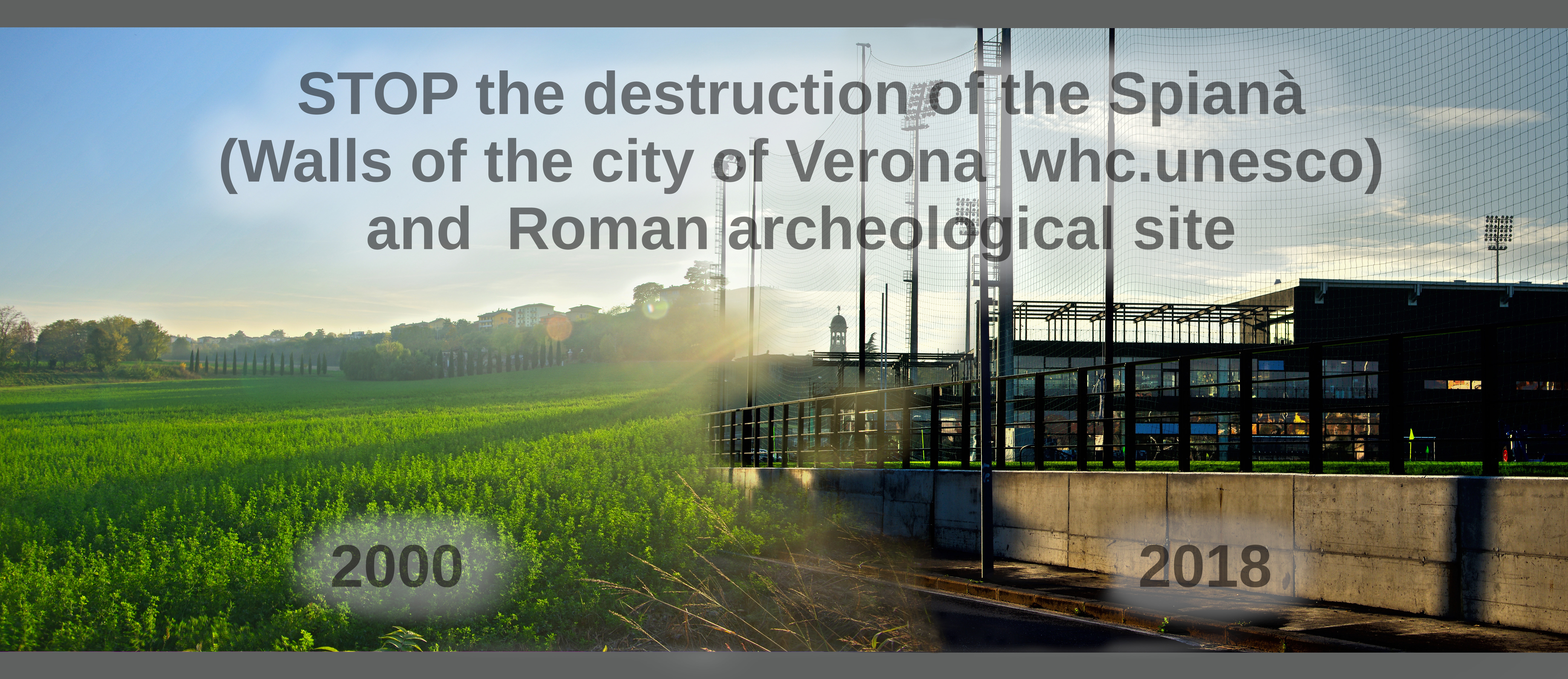 Eng: STOP the destruction of the Spianà (Walls of the city of Verona whc.unesco) and Roman archeological site 2000-2018. Protest against the speculative building in Spianà in Verona. Spianà: space in front of the walls swept by artillery from the 16th century onwards. - Address: Via San Marco cap 37138 VERONA (ITALY) - Latitude 45.441294 - Longitude 10.9567278 - Copyright: Photo Paolo Villa, Licenza: MiBAC disclaimer warning - Software created with: GIMP, Darktable, Ubuntu, digikam. - Camera: PENTAX K-5 II - Lens: Pentax smc DA 16-45mm F4 ED AL - From the union of two photos